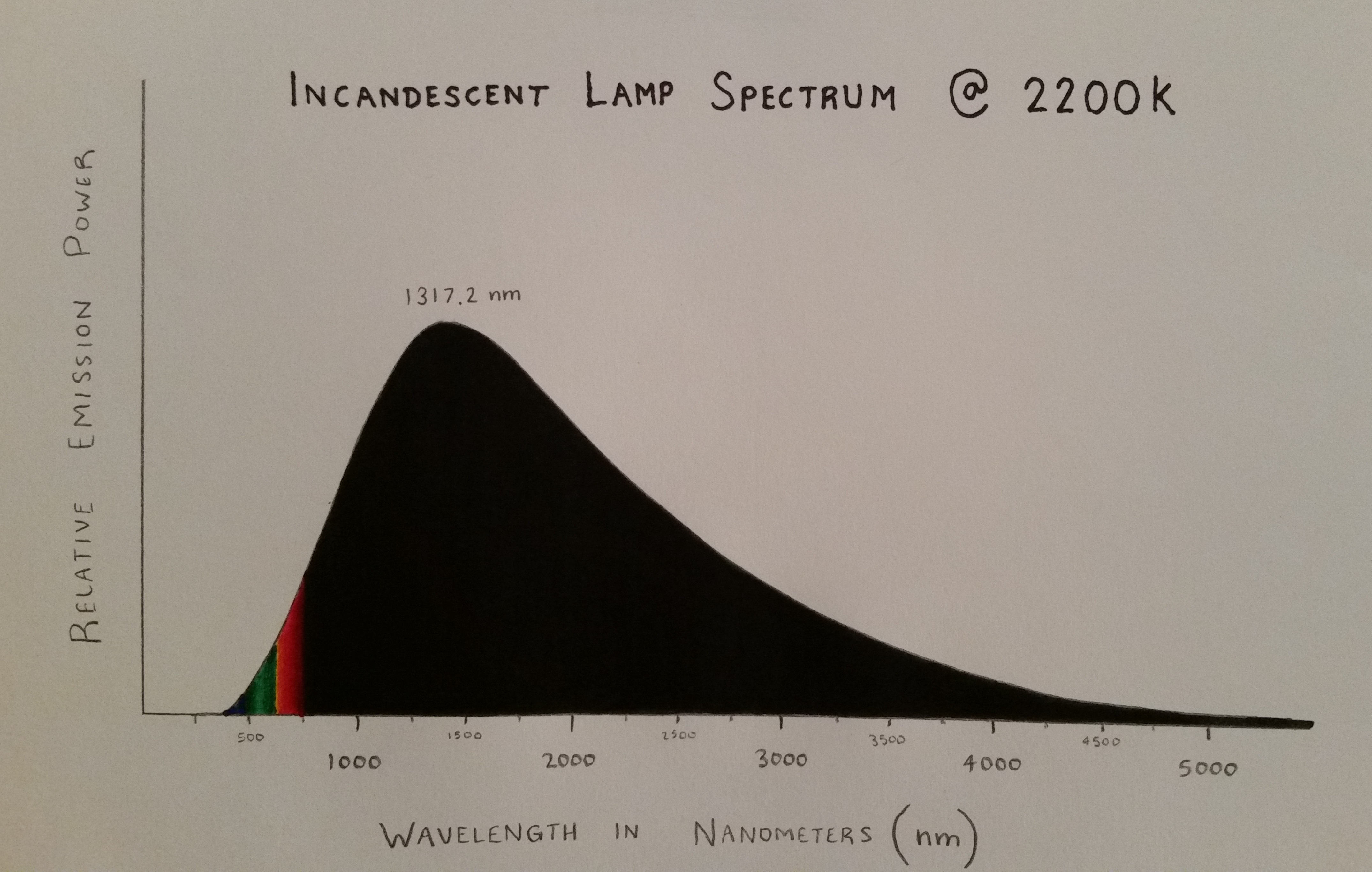 Emission spectrum of a 2200K blackbody radiator.